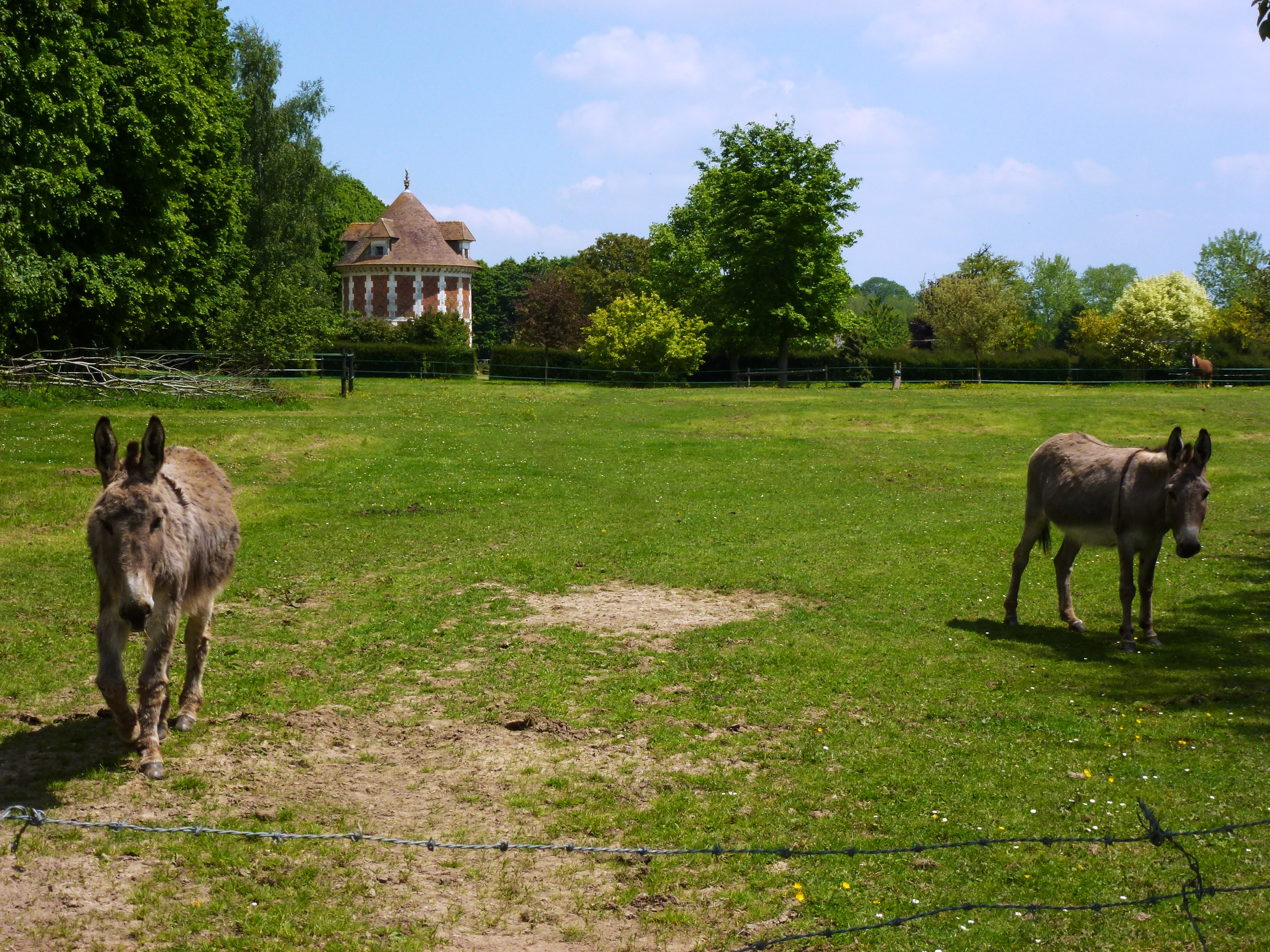 Morainville-Jouveaux (Eure, Fr) paysage avec ânes et colombier